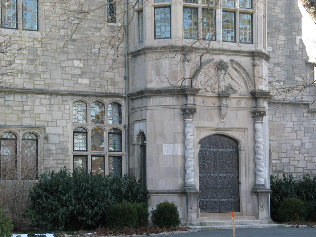 One of Coe Hall entrances is remeninscent of British Architecture.